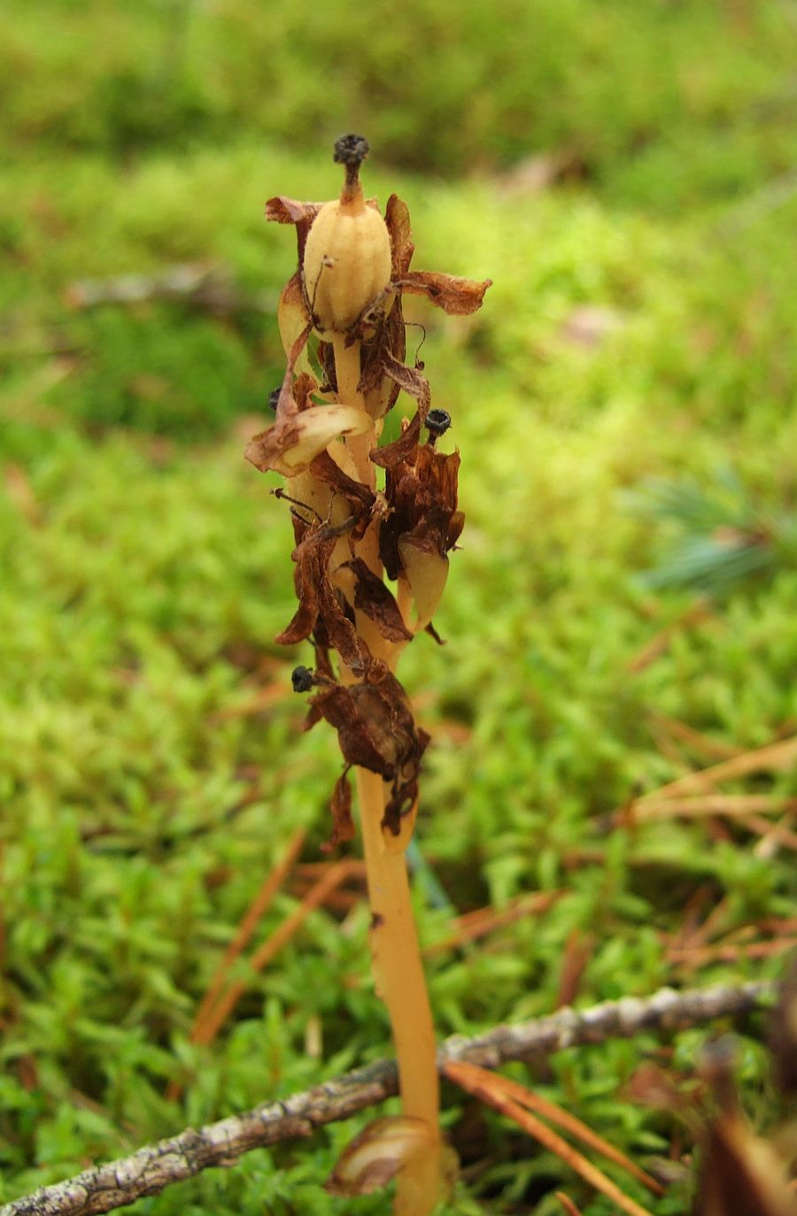 Monotropa